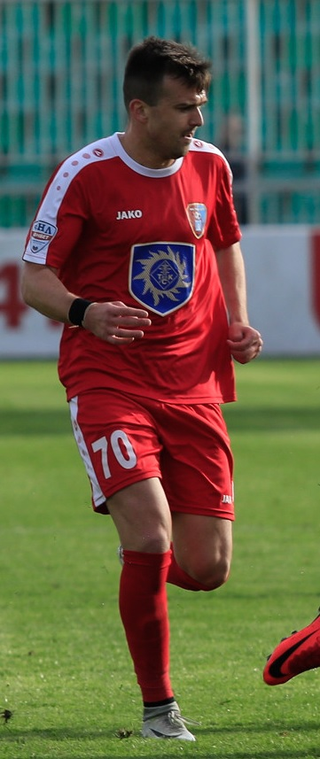 Andrei Murnin with FC Tambov in a game against FC Kuban Krasnodar.